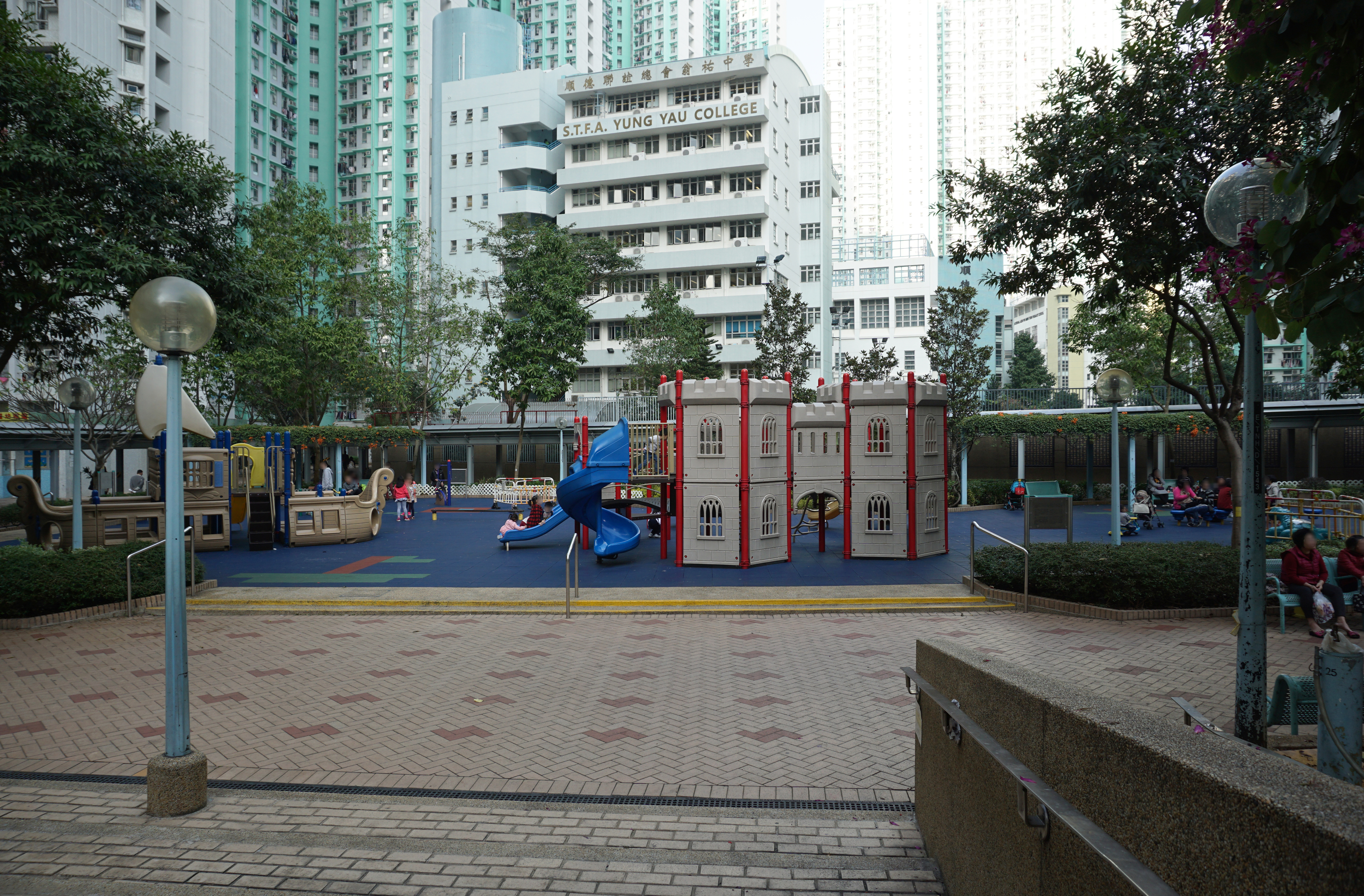 Tin Heng Estate in Tin Shui Wai, Hong Kong.